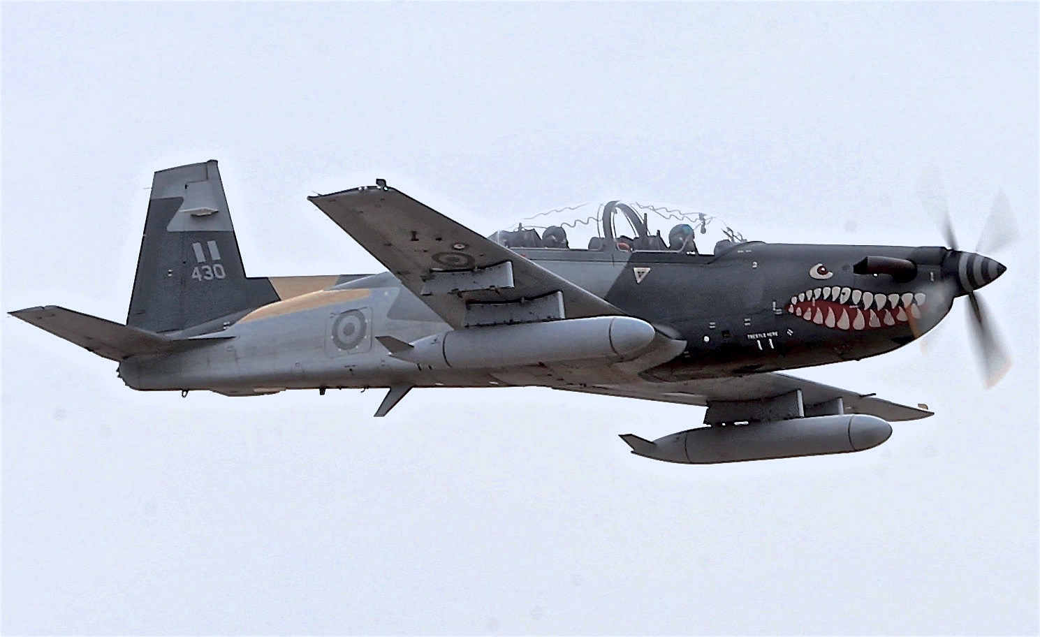 KAI KT-1 Woongbi Peru